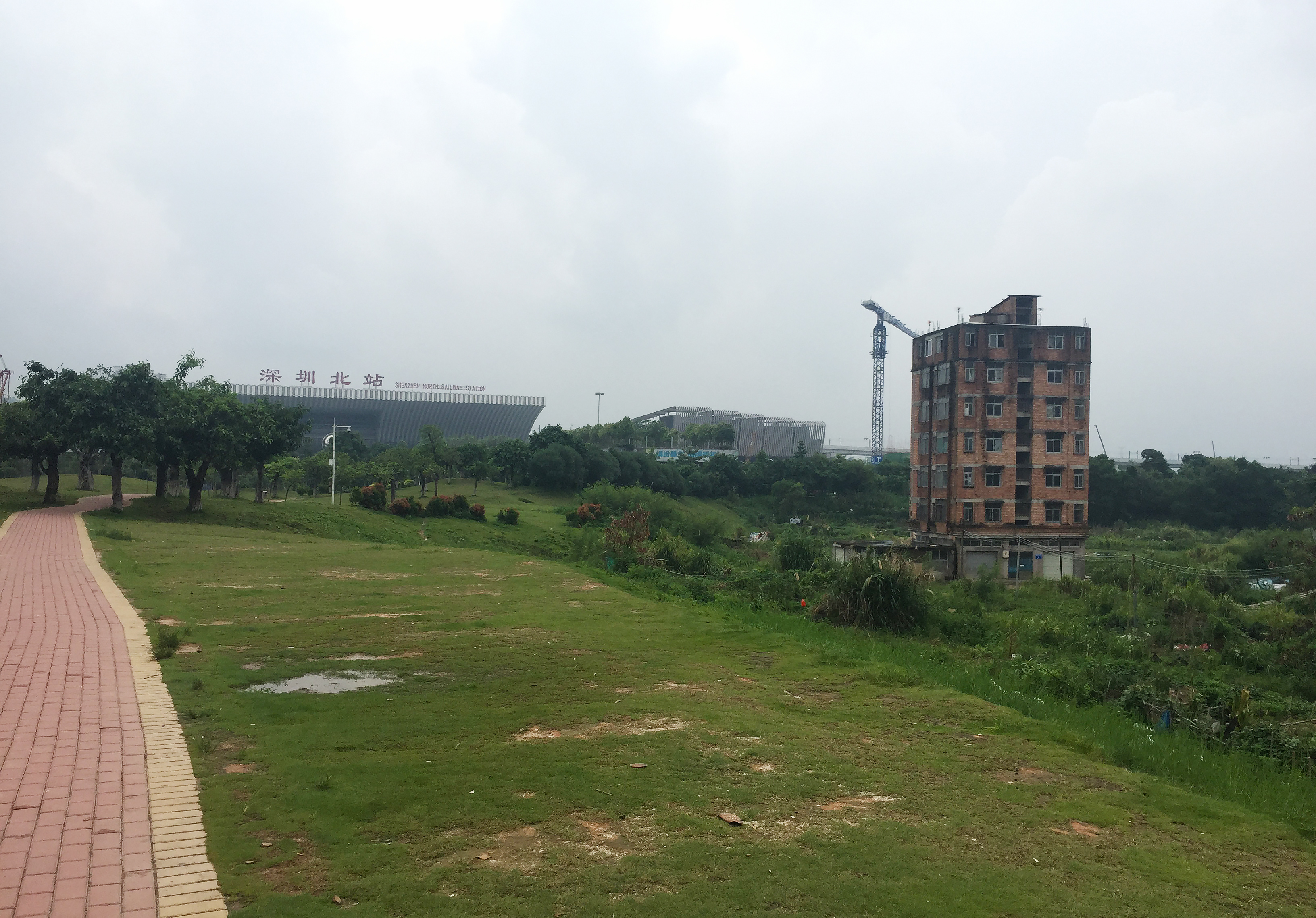 This 7-storey building has been remaining here for several years. The owner rejected the CNY 20 million compensation for demolition.